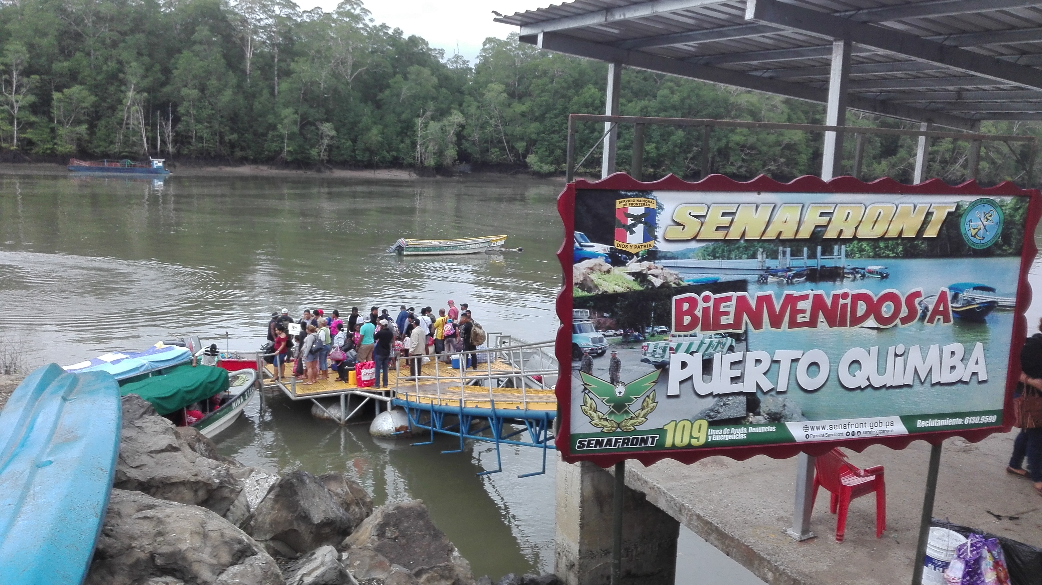 Quimba Port, Meteti, Darien Province, Republic of Panama